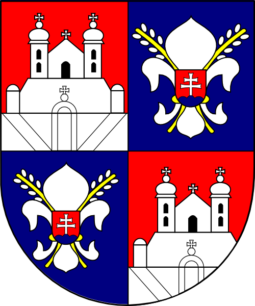 Coat of arms (shield only) of Michal Buzalka, auxiliary bishop of Trnava (1938 - 1961)